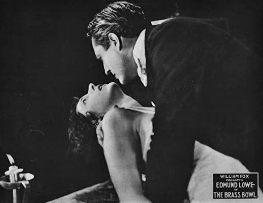 Still from The Brass Bowl starring Edmund Lowe.